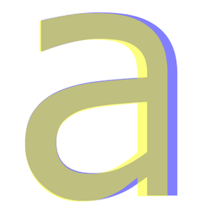 The difference between the typefaces Tahoma (yellow) and Verdana (blue).